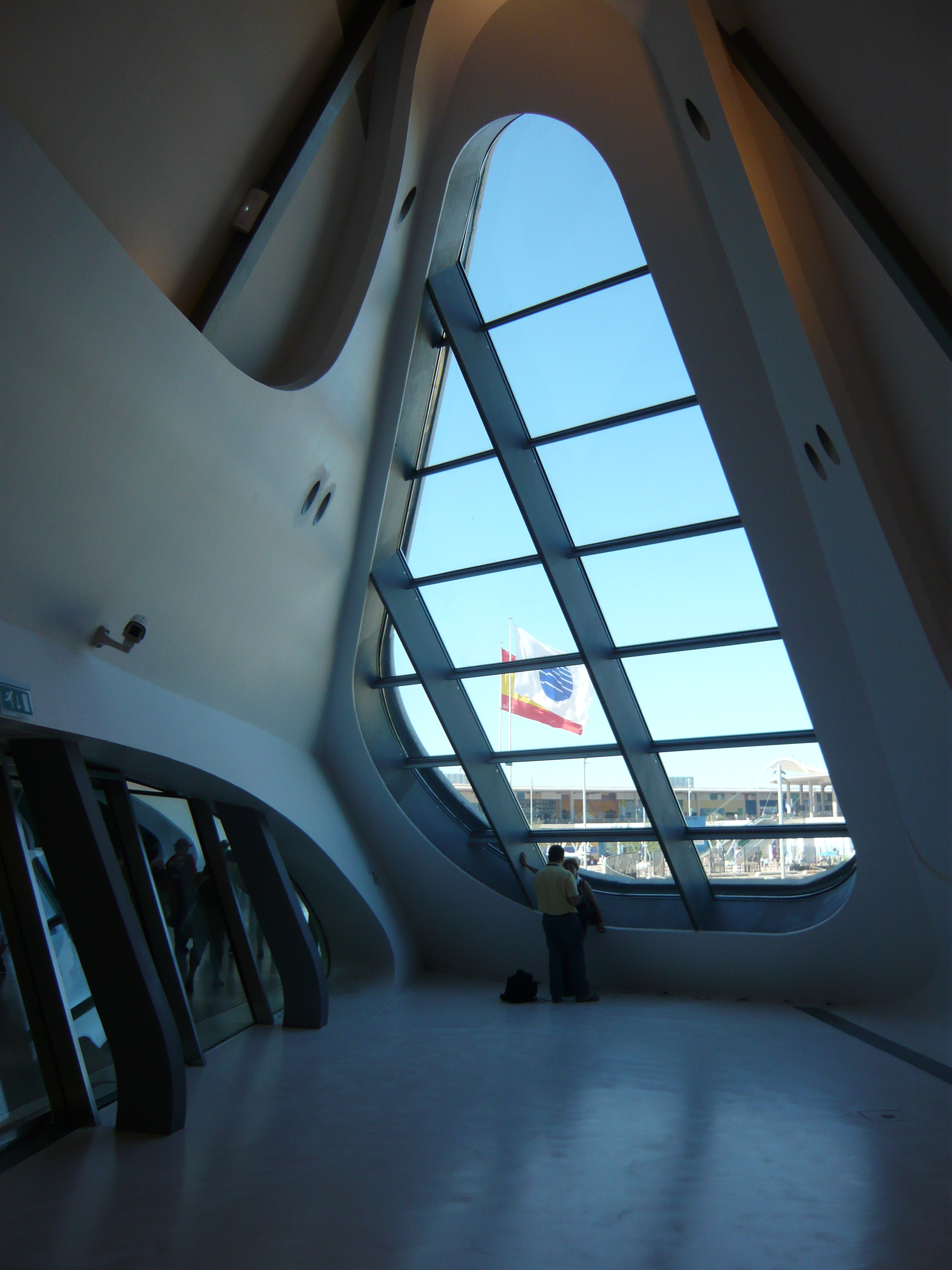 Bridge Pavillion of the International Exposition Zaragoza 2008